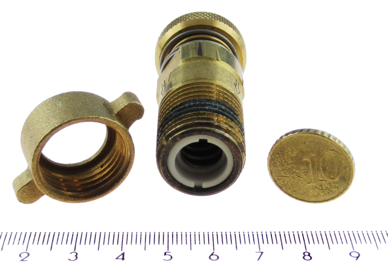 1/2" whitworth nut and screw. The diameter is approximately 20 mm, similar to a 10 Euro-cent coin.